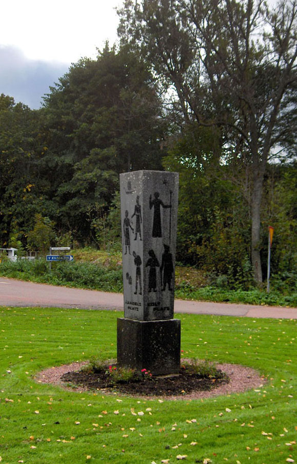 Saltvik Åland 2011